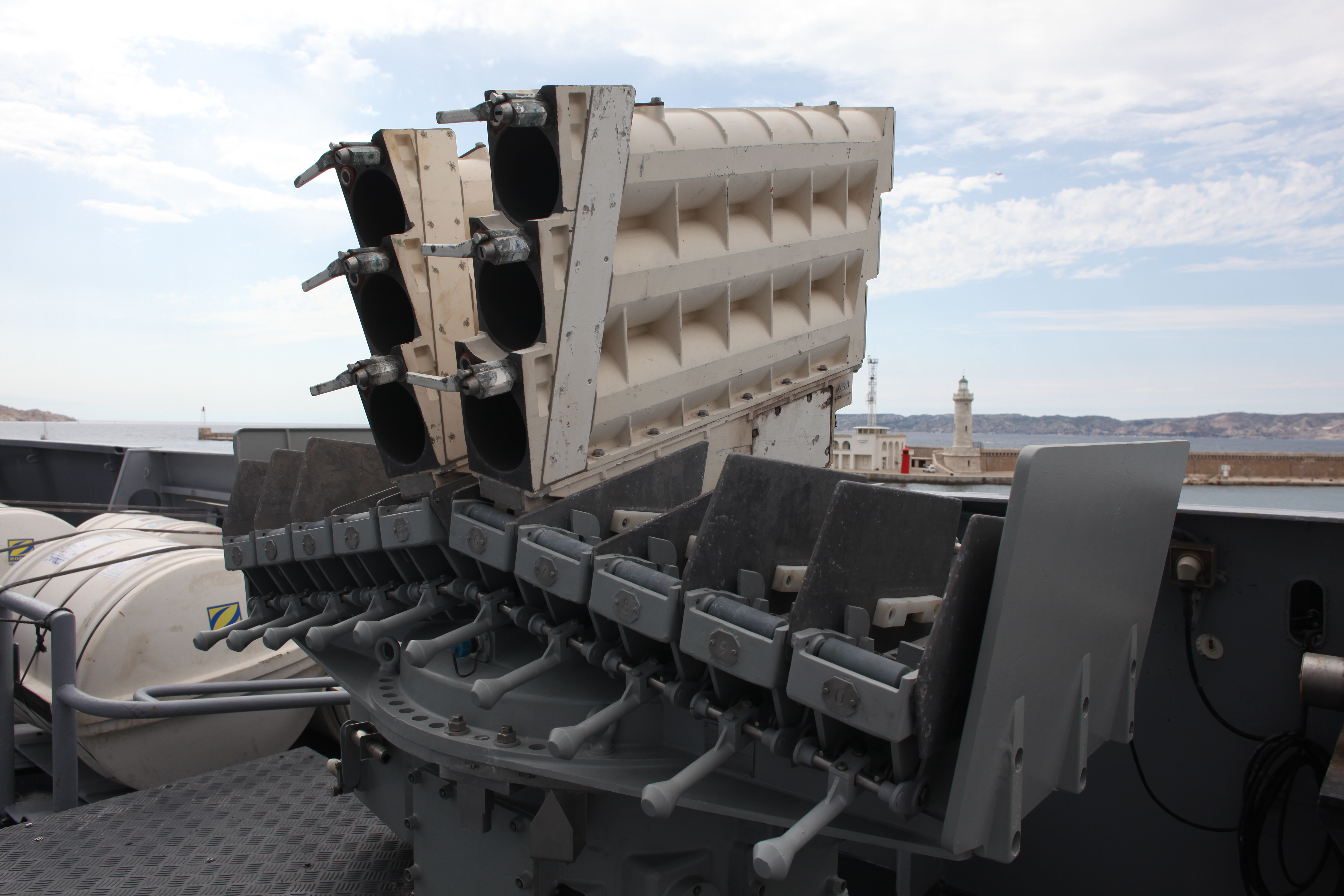 The Dagaie launcher of the stealth frigate Surcouf.